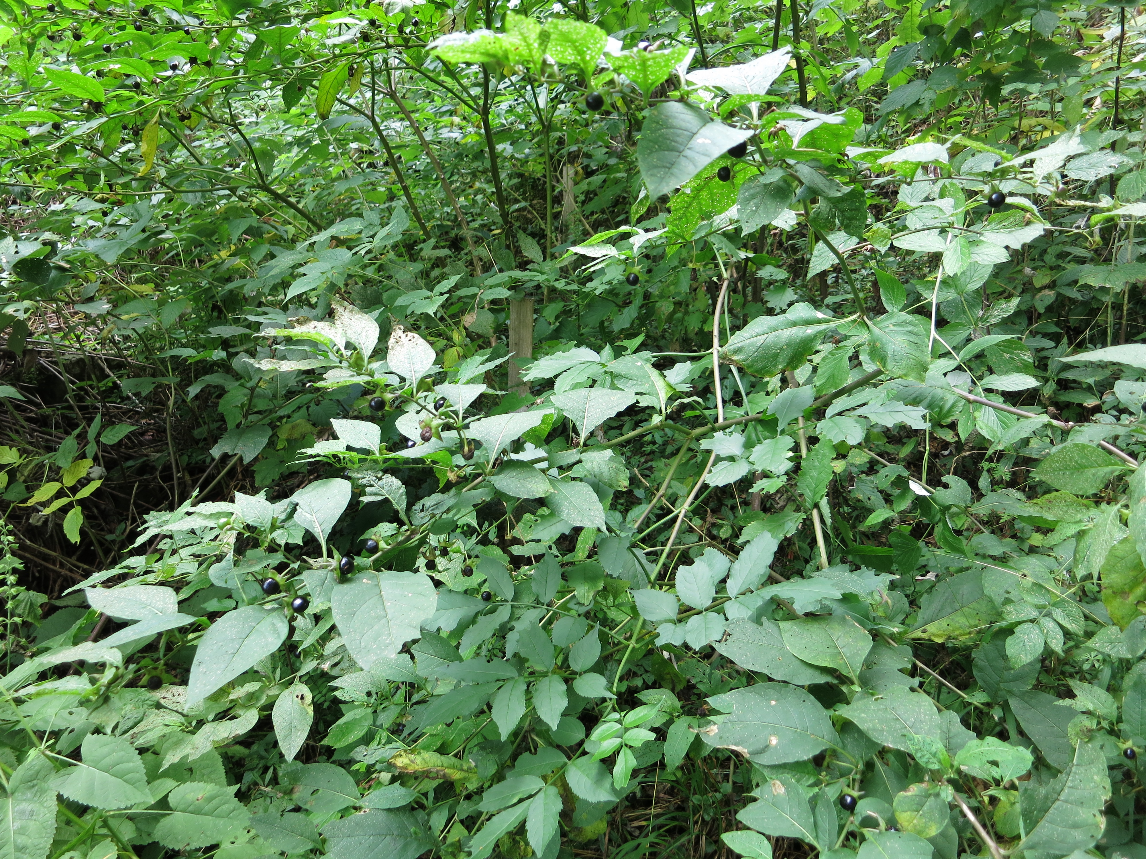 Atropa in forest in Austria